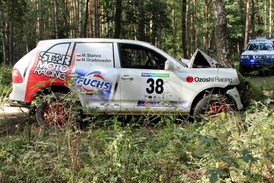 Maciej Stańco (driver, POL), Marcin Grydziuszko (co-driver, POL), Fuchs Star Moto Racing Team, Porsche Cayenne, Baja Poland 2012